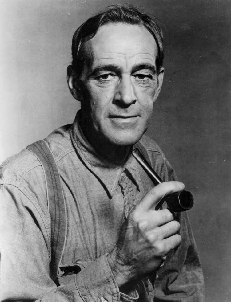 Photo of actor Arthur Space as Herbert Brown from the television program National Velvet.